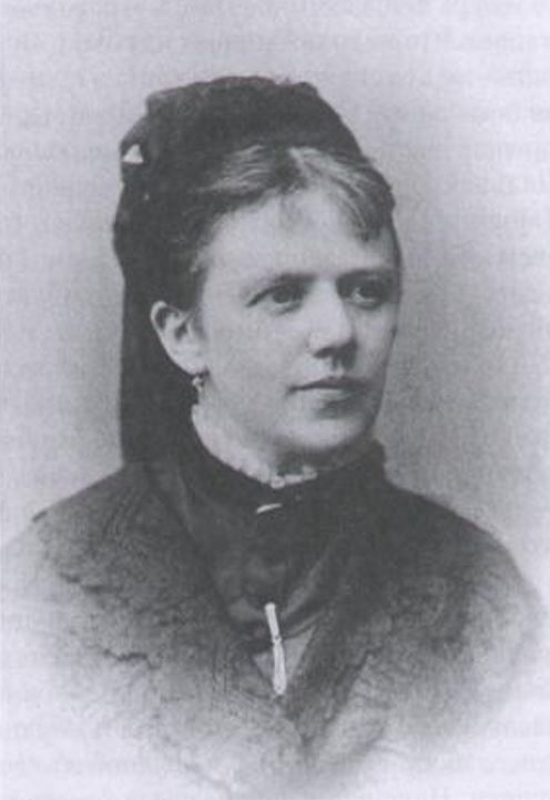 Beloved sister of the musician, Aleksandra (1842-1891), married to Lev Vasilevic Davydov.